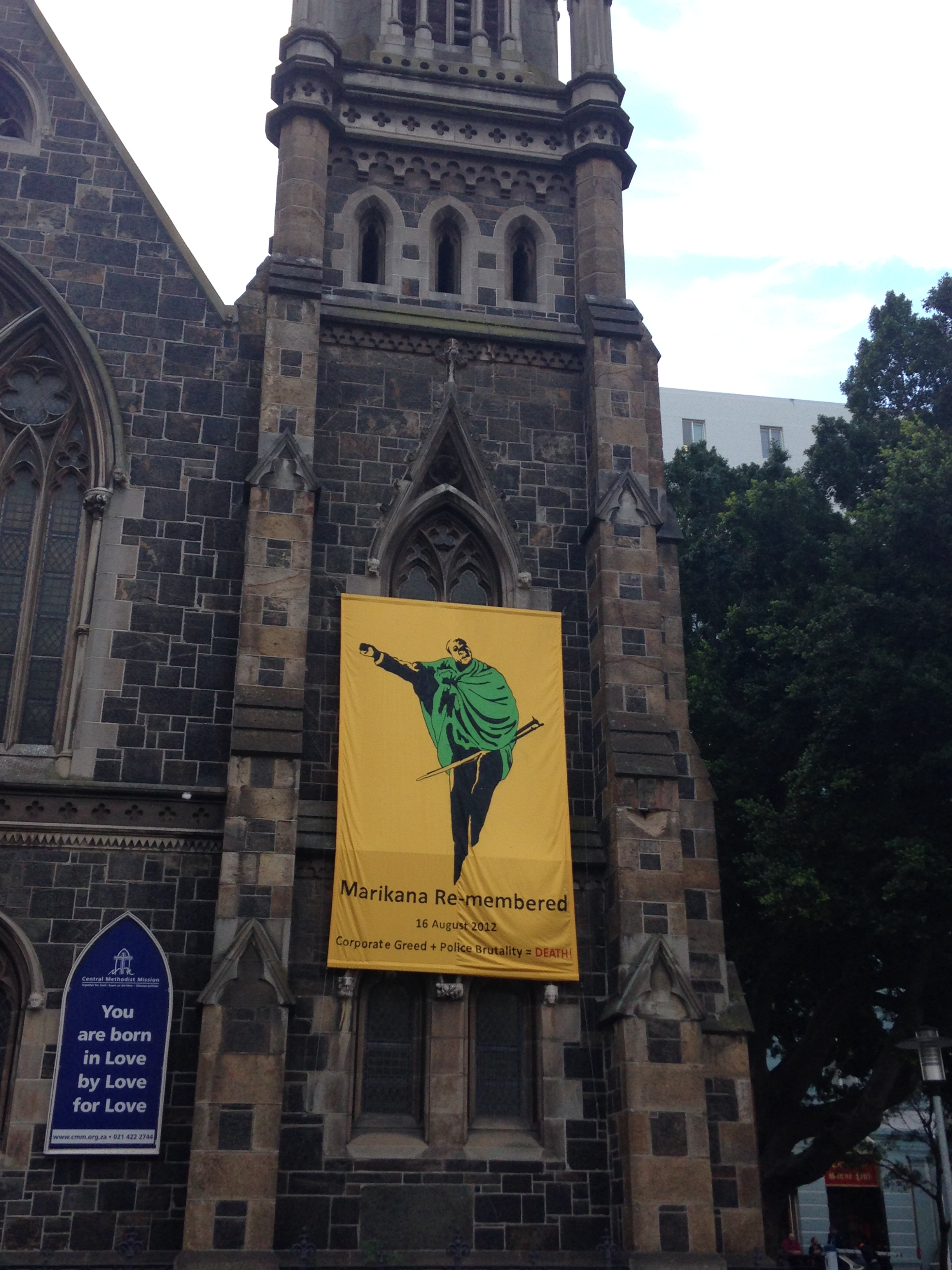 Church on Green Market Square in Cape Town, South Africa with a banner commemorating the Marikana massacre This media shows a South African Protected Site with SAHRA file reference 9/2/018/0092.